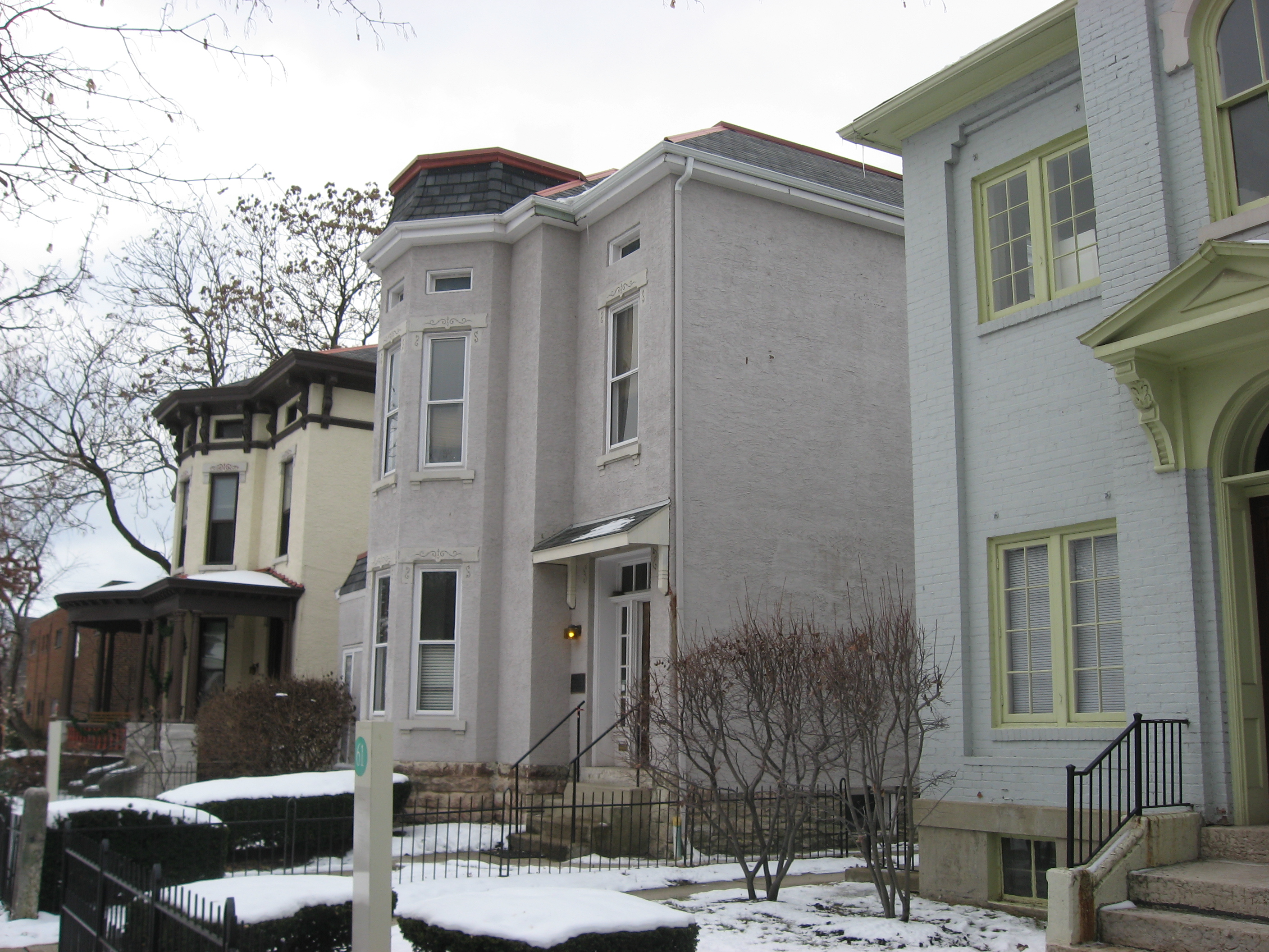 Houses on the western side of the first block of N. Jefferson Avenue in Columbus, Ohio, United States. They are part of the Jefferson Avenue Historic District, a historic district that is listed on the National Register of Historic Places.